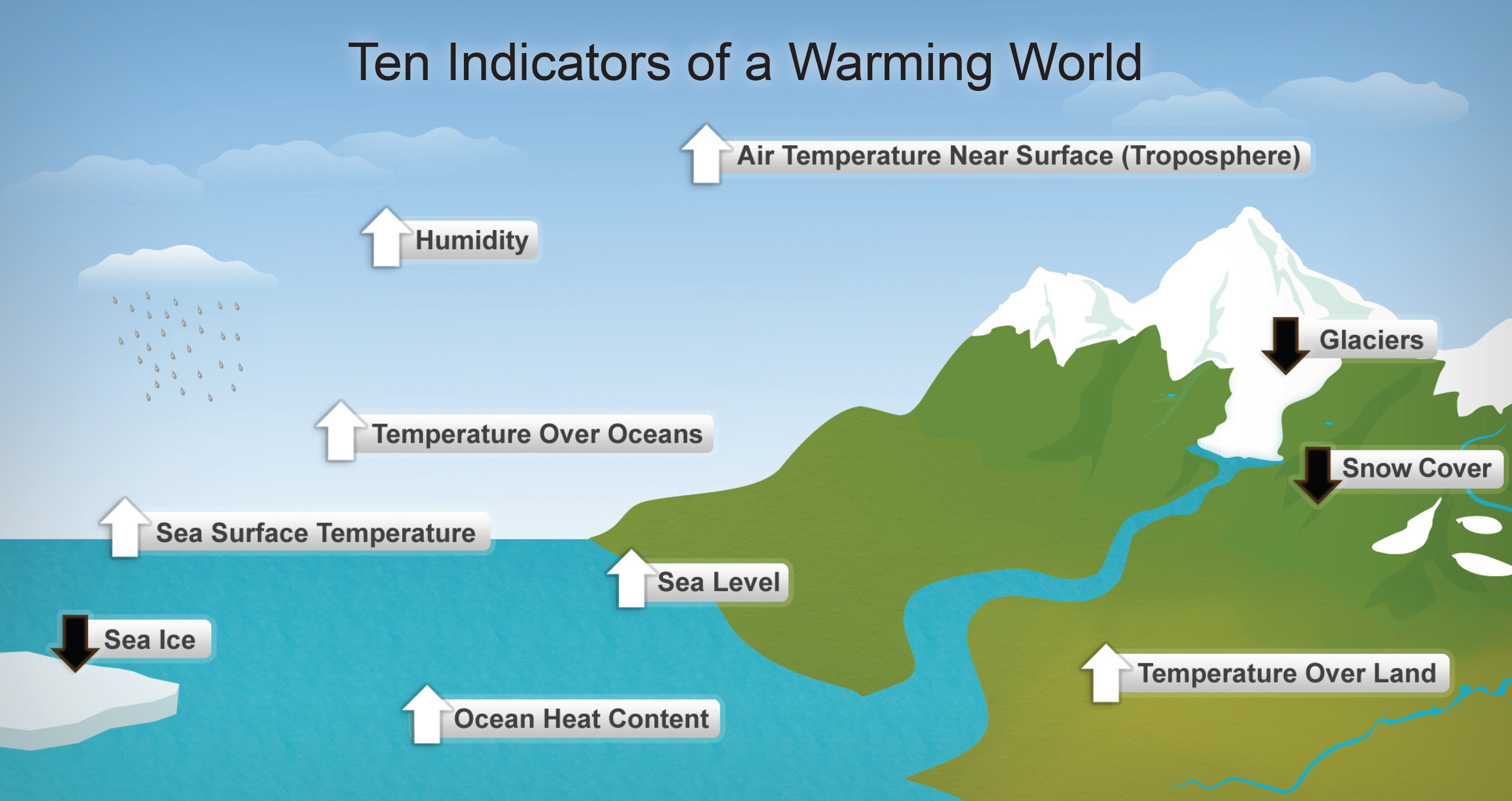 This diagram shows ten indicators of global warming: Seven of these indicators would be expected to increase in a warming world. These are: airearen tenperatura gainazaletik gertu(troposphere) Specific humidity Ocean heat content Sea level Sea-surface temperature Temperature over the oceans Temperature over the land Observations show that these 7 indicators are, in fact, increasing. The following three indicators would be expected to decrease in a warming world. These are: Snow cover (March-April, Northern Hemisphere) Glaciers (glacier mass balance) Sea-ice (September Arctic sea-ice extent) Observations show that these 3 indicators are, in fact, decreasing. From page 2 of the cited public-domain source: "A comprehensive review of key climate indicators confirms the world is warming and the past decade was the warmest on record. More than 300 scientists from 48 countries analyzed data on 37 climate indicators, including sea ice, glaciers and air temperatures. A more detailed review of 10 of these indicators, selected because they are clearly and directly related to surface temperatures, all tell the same story: global warming is undeniable. For example, the surface air temperature record is compiled from weather stations around the world, and analyses of those temperatures from four different institutions show an unmistakable upward trend across the globe. But even without those measurements, nine other major indicators of climate change agree: the earth is growing warmer and has been for more than three decades. A warmer climate means higher sea level, humidity and temperatures in the air and ocean. A warmer climate also means less snow cover, melting Arctic sea ice and shrinking glaciers." See also effects of global warming.